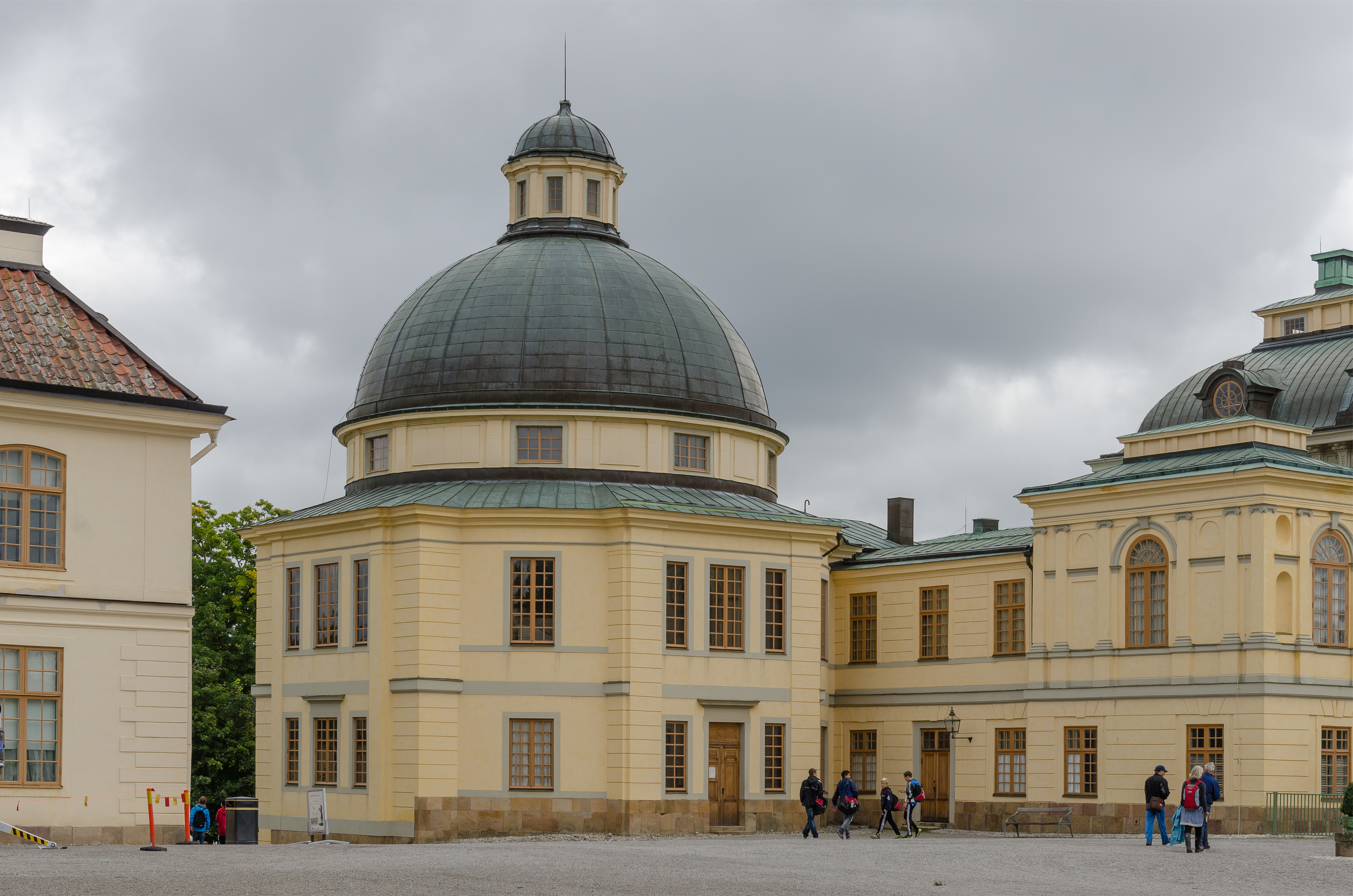 Drottningholm Palace church.